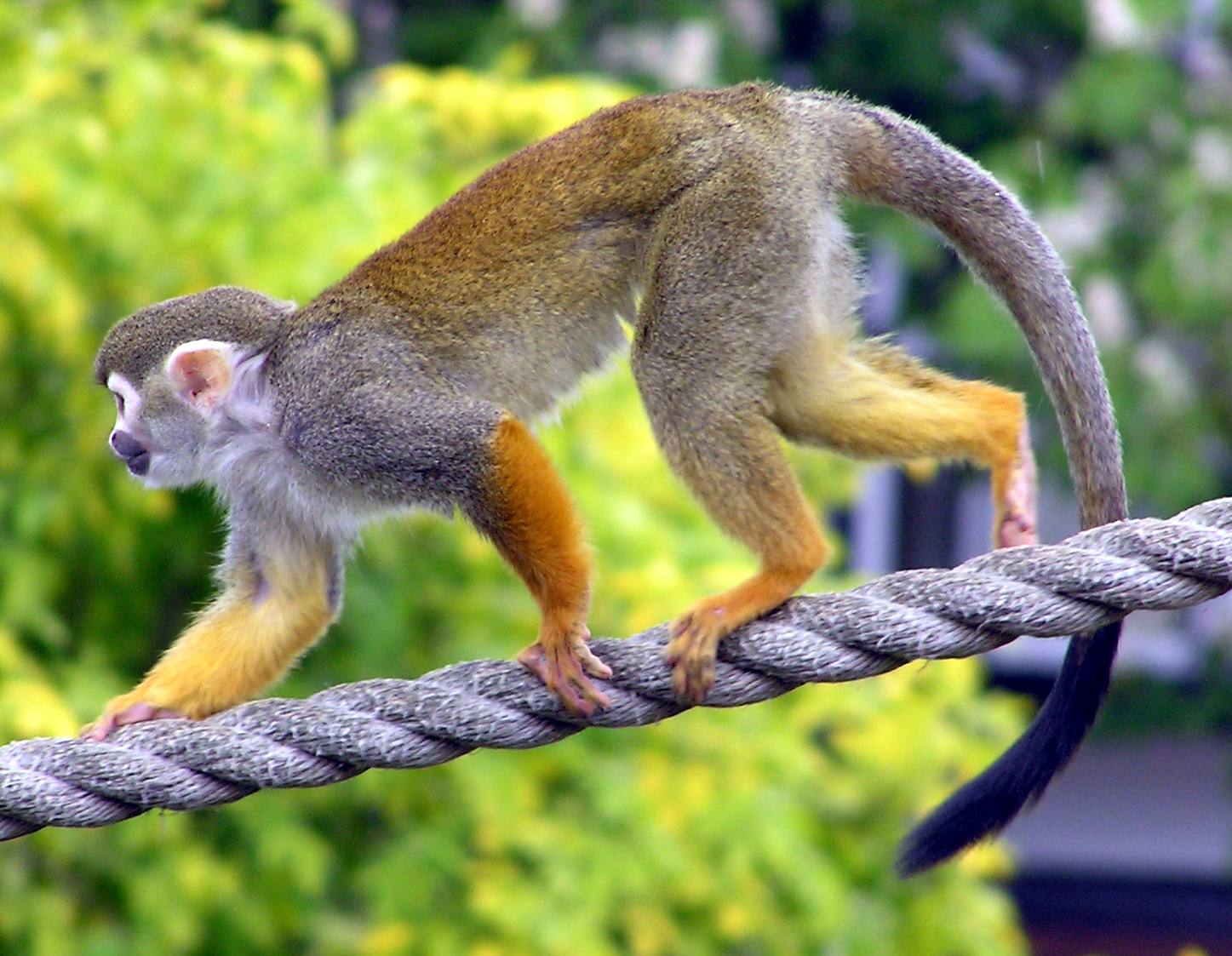 Common squirrel monkey Saimiri sciureus at Bristol Zoo, Bristol, England.